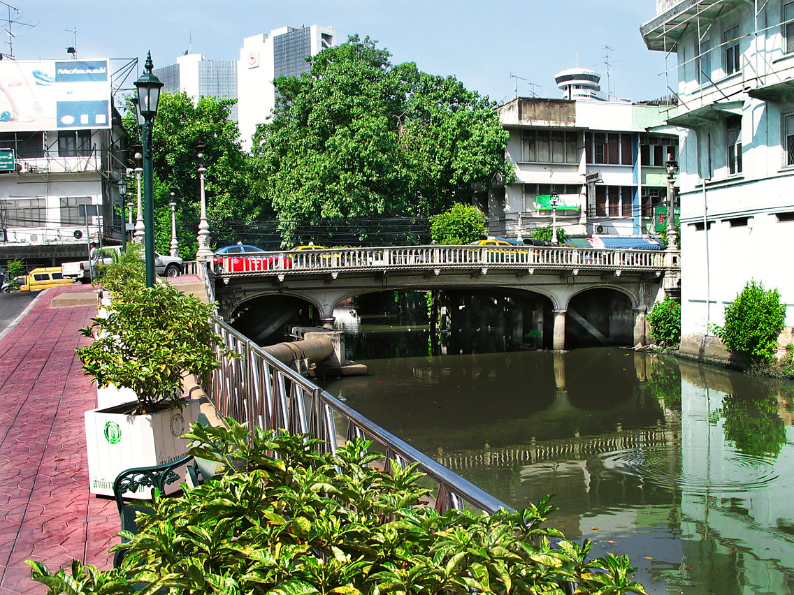 Phitaya Sathira bridge over Klong Phadung Krung Kasem, one of the many canals of Bangkok, Thailand